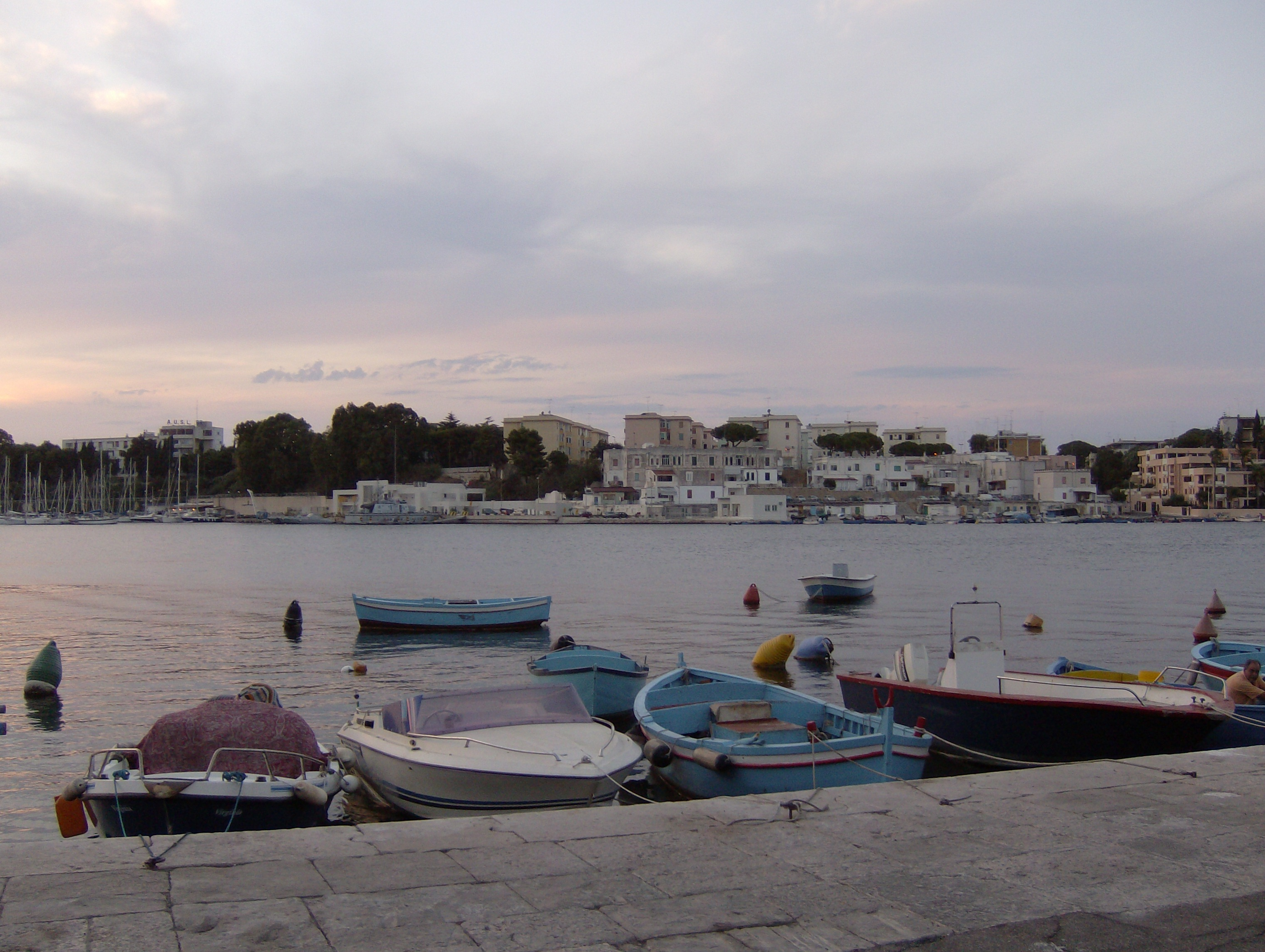 View of the Brindisi Harbour